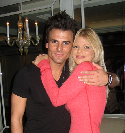 Donna D'Errico and Jeremy Jackson. Baywatch Reunion DVD Release Party Oct 2006.